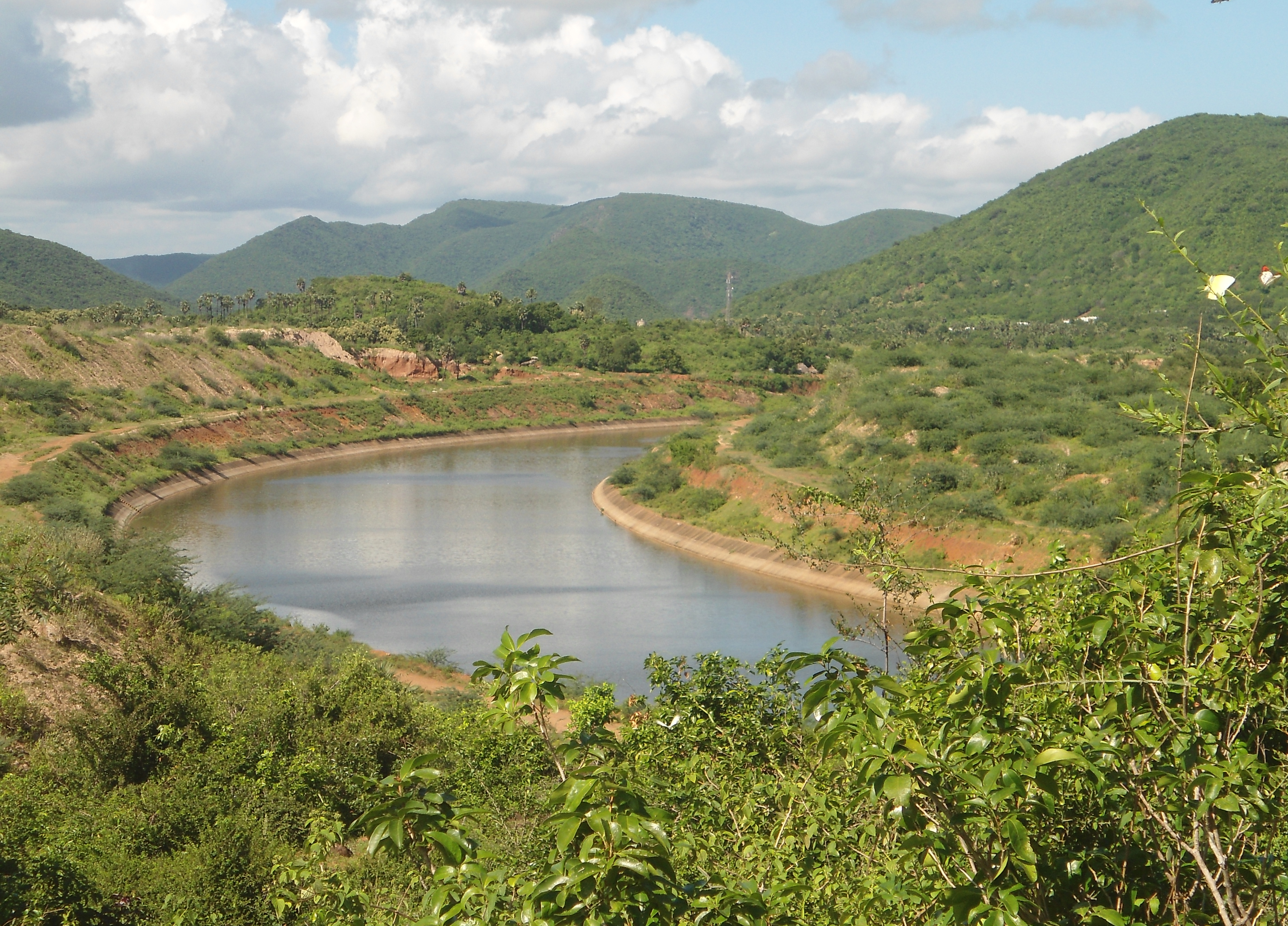 Polavaram project Canal view near Talupulamma Lova, East Godavari district